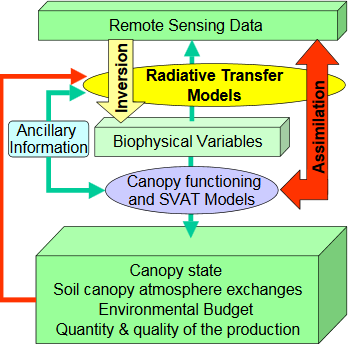 The general Data Assimilation Diagram in the ReSeDA experiment (excerpt from the EU project final report